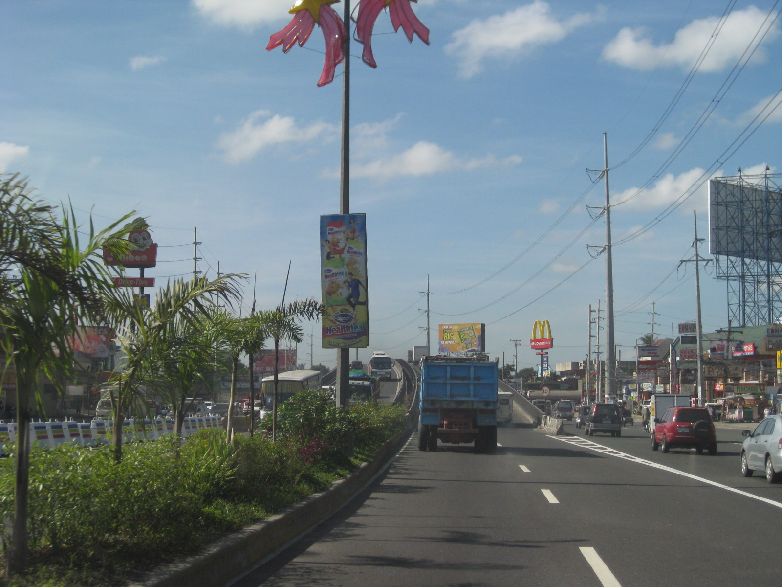 Eastbound of the Jose Abad Santos Avenue in San Fernando City, Pampanga.